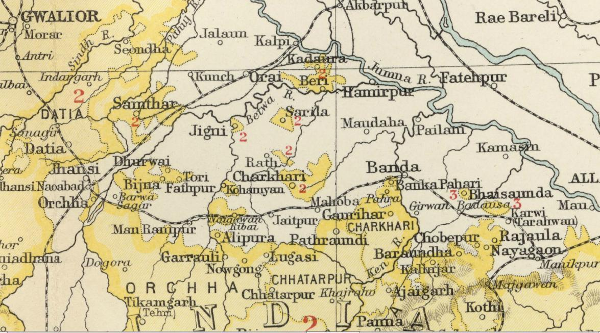 1909 Imperial Gazetteer of India Central India map section